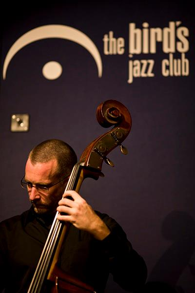 Dominik Schürmann at the Bird's Eye Jazzclub Basel 2012